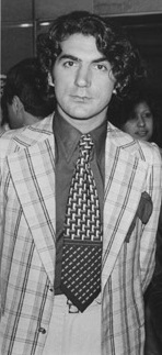 Jorge Sassi- actor argentino